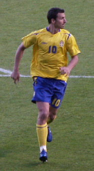 Zlatan Ibrahimovic playing for Sweden against Chile at the Råsunda soccer stadium on 2 June 2006